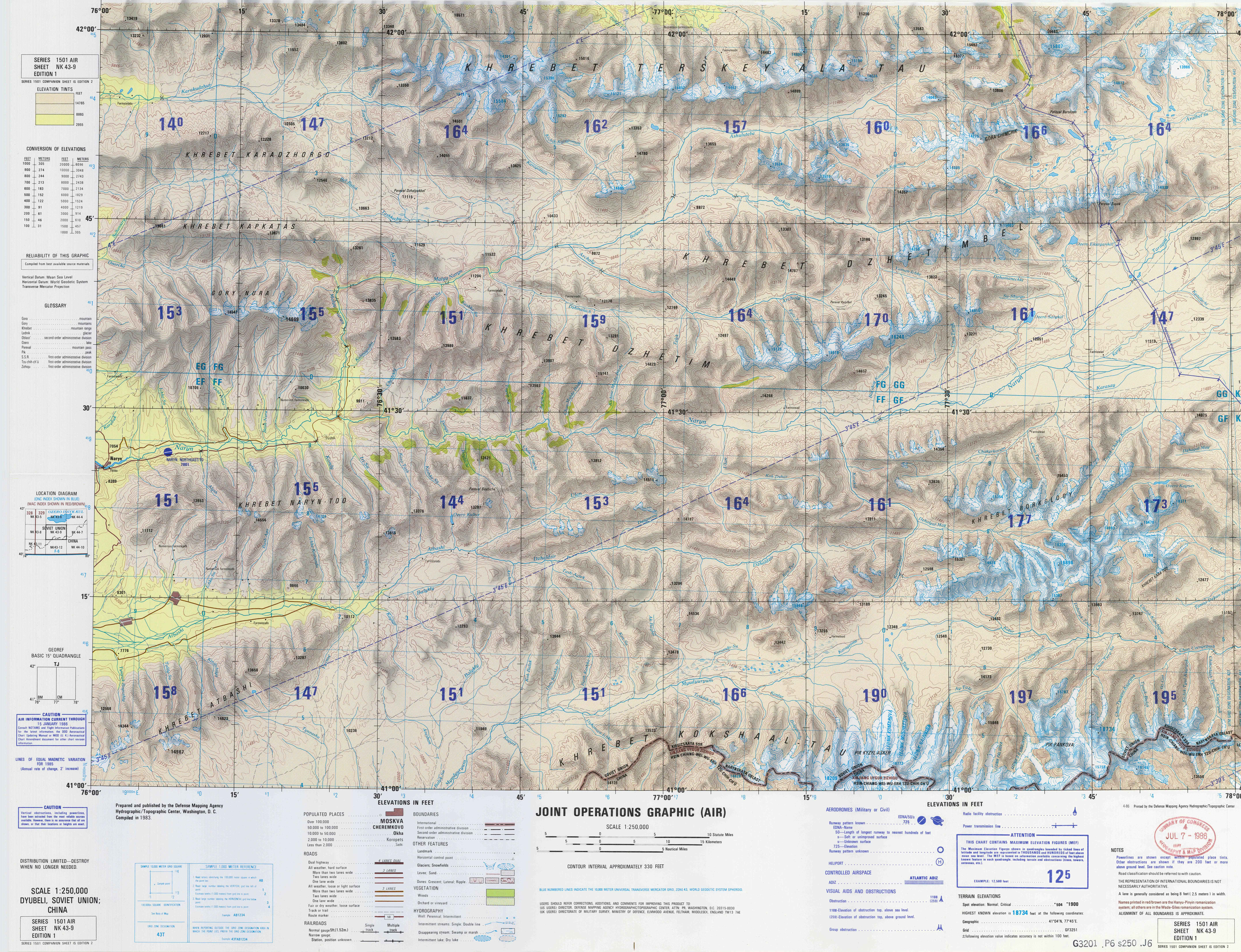 NK-43-9 Dyubeli USSR